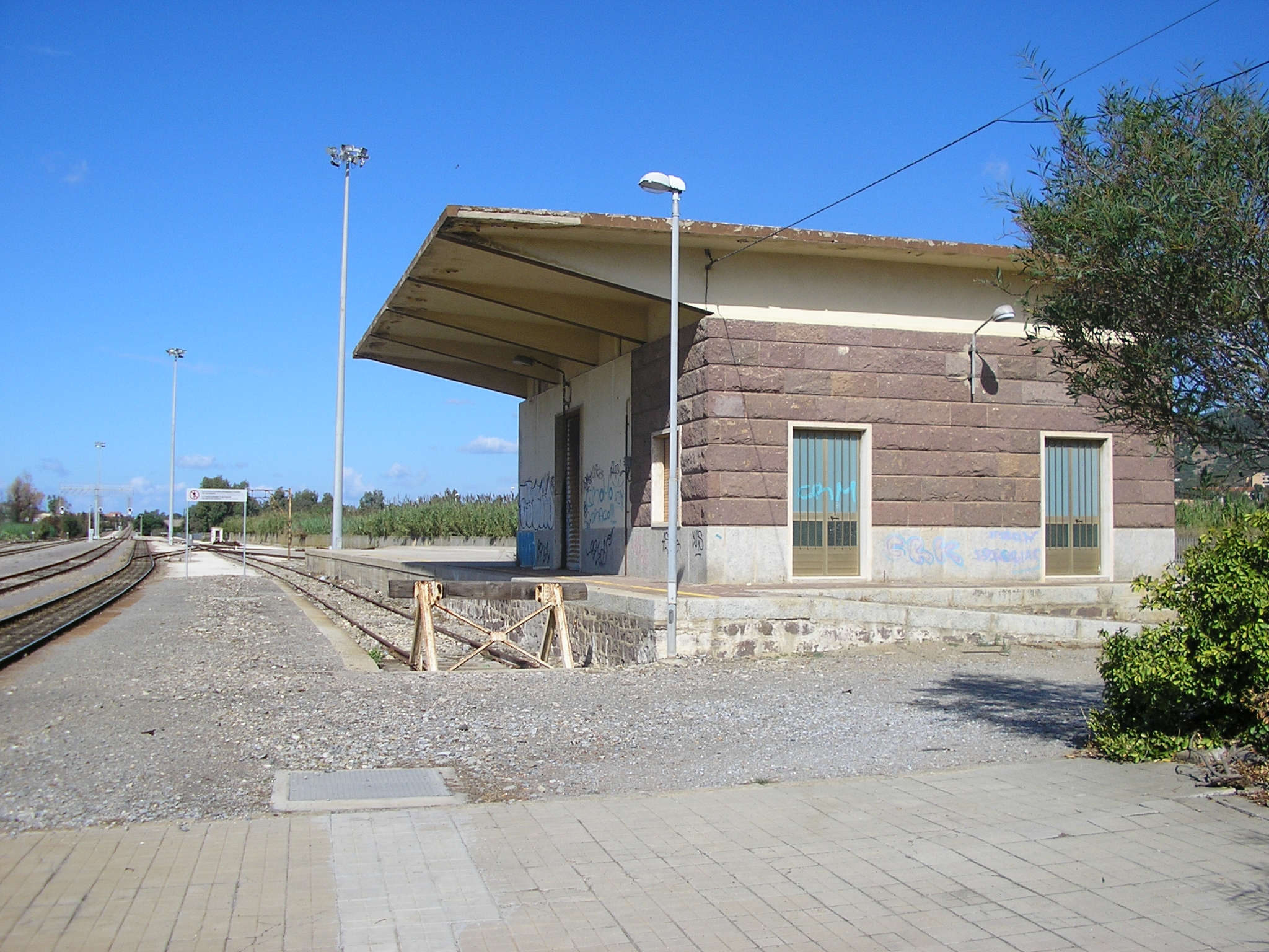 The goods station of the Carbonia Stato railway station, in Sardinia, Italy